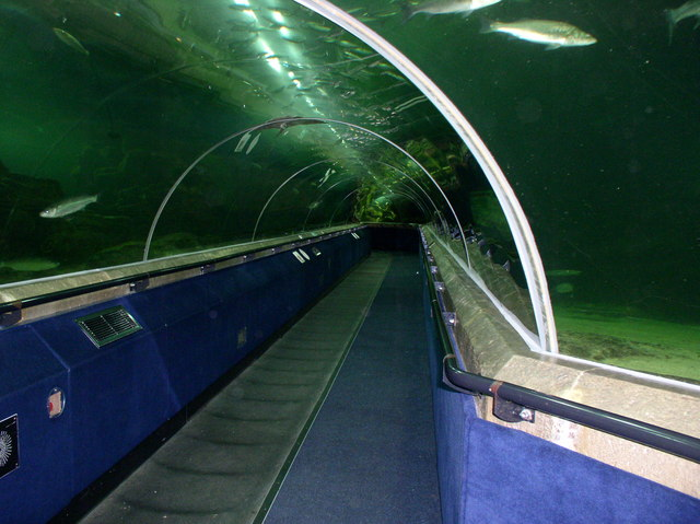 Deep Sea World Moving walkway or the choice of walking on normal path